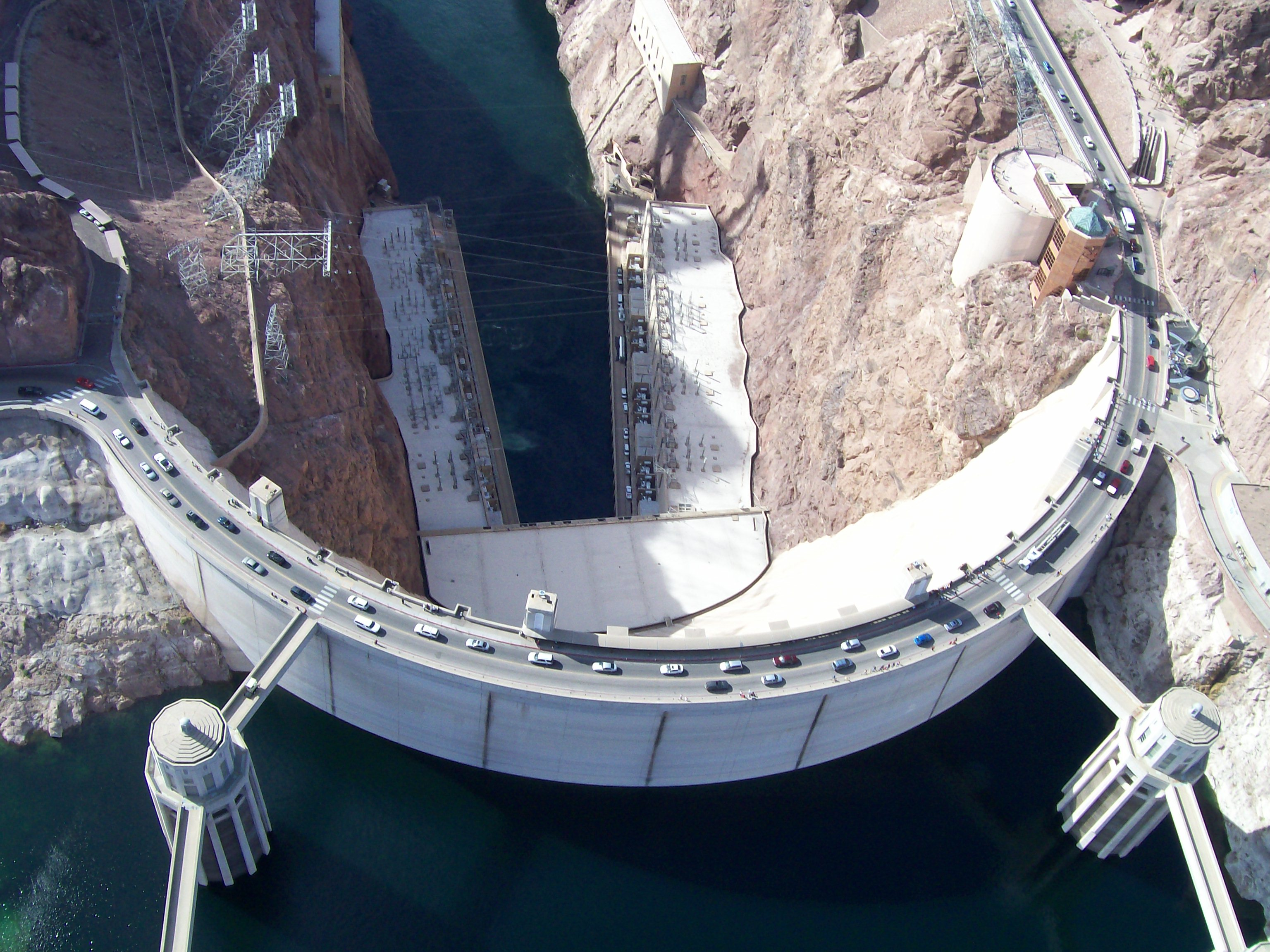 A view of the Hoover Dam from over Lake Mead by helicopter with a 7.0 megapixel digital camera